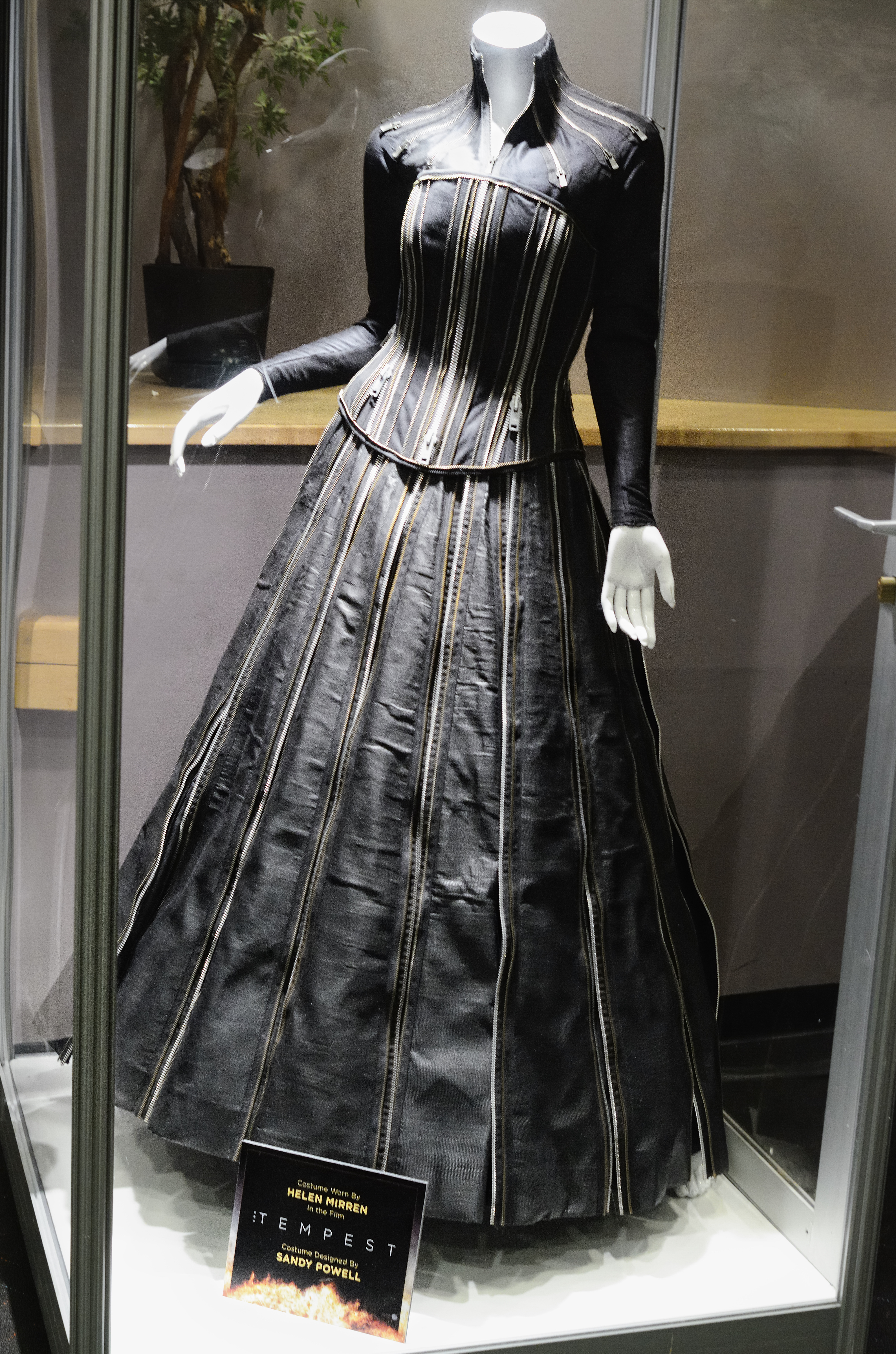 Costume worn by Helen Mirren in the film The Tempest. Costume designed by Sandy Powell. Displayed at Lincoln Plaza Cinemas, Broadway, New York City.